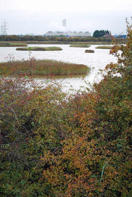 North Killingholme Bird Sanctuary. Picture taken from public footpath looking towards the Centrica power station.